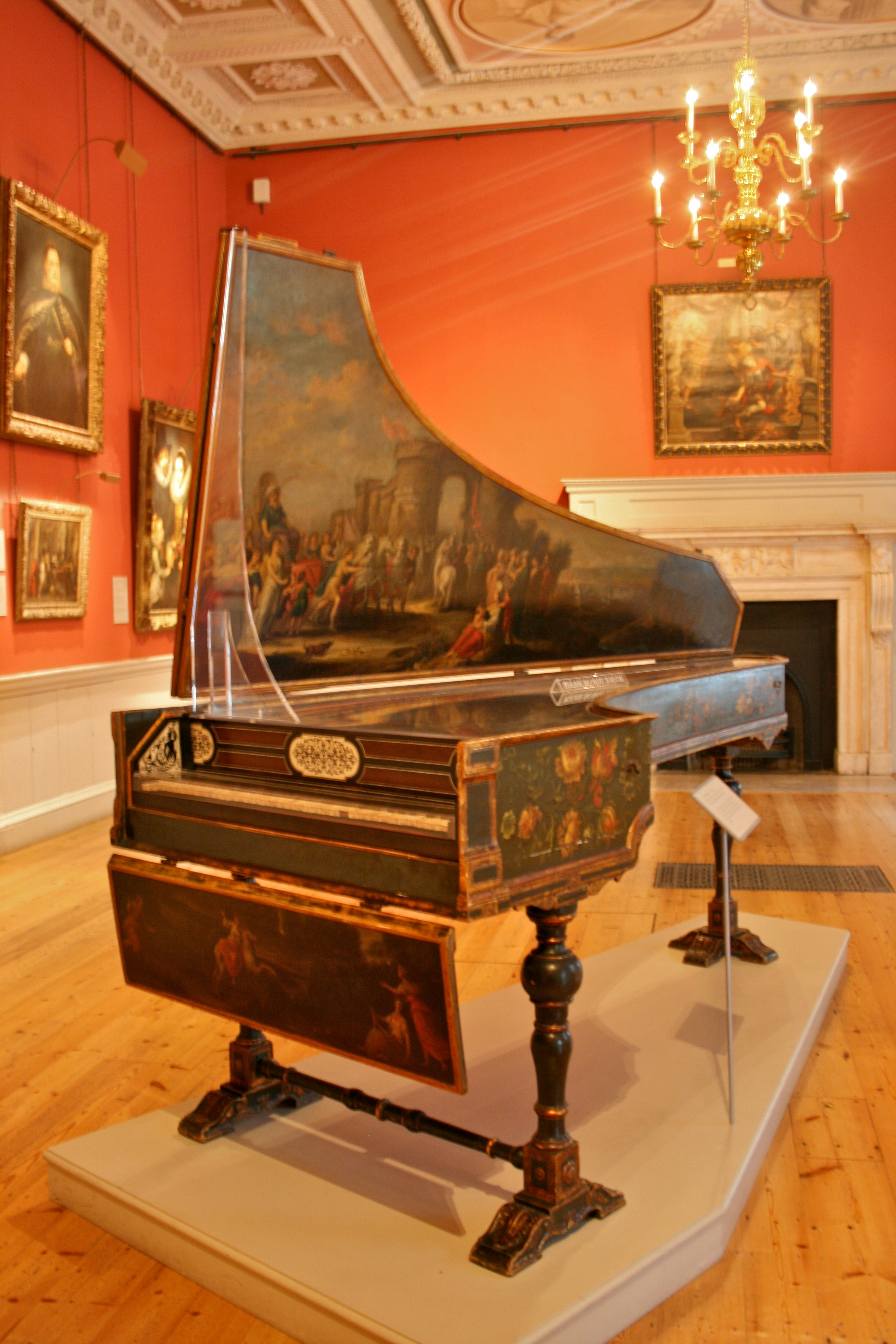 Harpsichord, mid 17th century. "Instrument and inner case probably South German or Austrian, outer case probably Italian, painted decoration Flemish." ... "The painted inner case depicts the biblical story of David and Goliath." Lee Bequest, 1947. On display in the Courtauld Gallery.